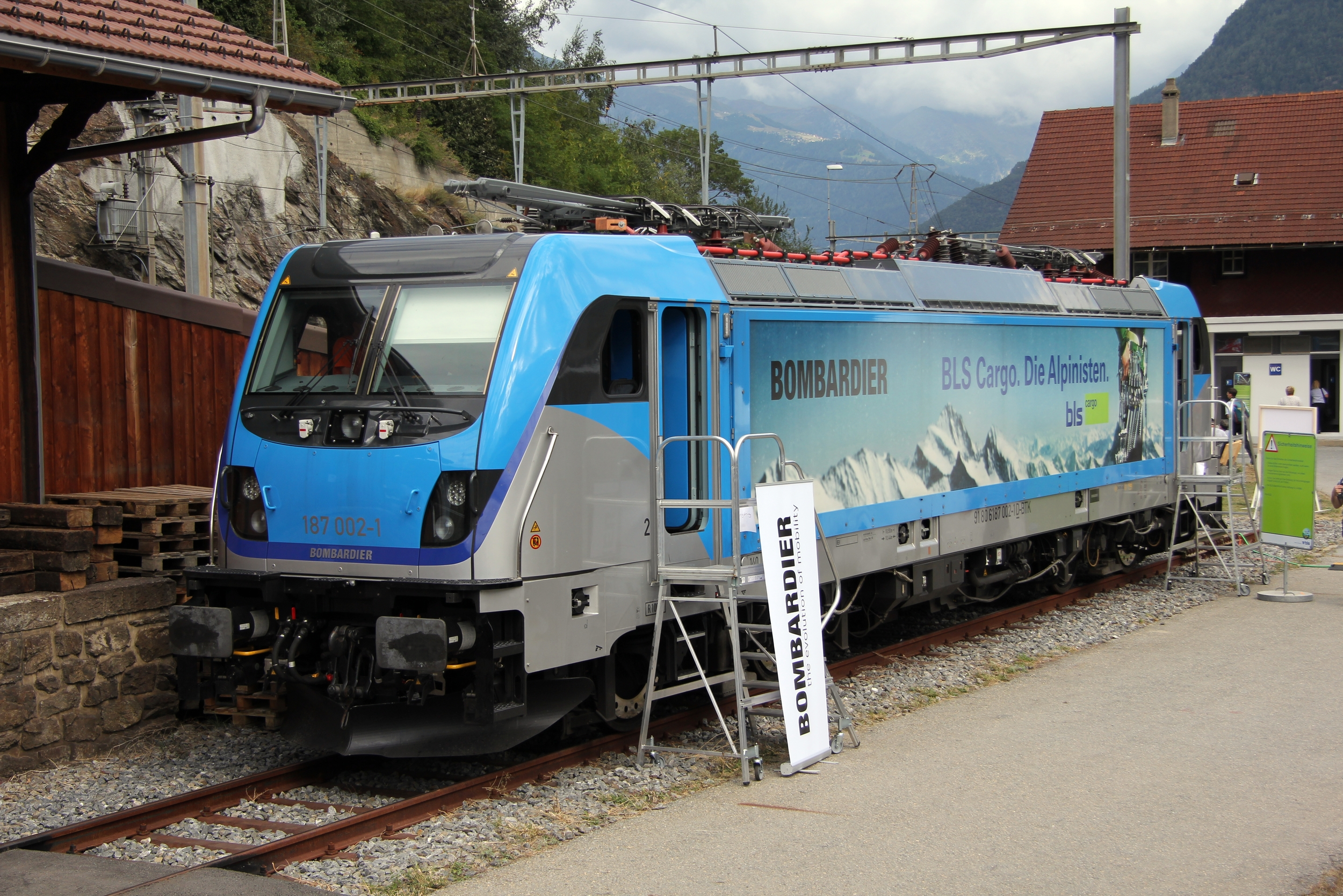 The Bombardier TRAXX Last Mile 187 002-1 in Lalden during the celebrations for the 100 years of the Lötschberg line.